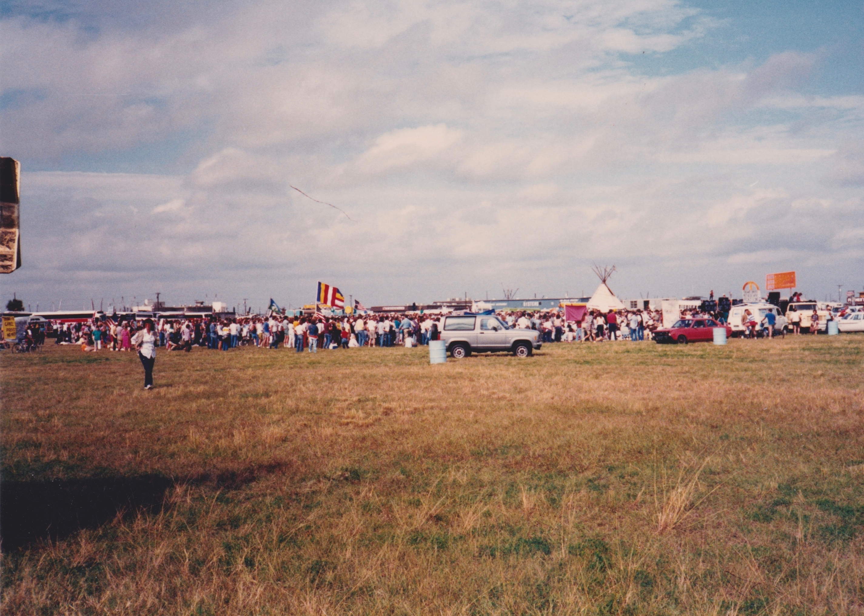 Protest against Trident II Missile, Cape Canaveral Florida, 1987.